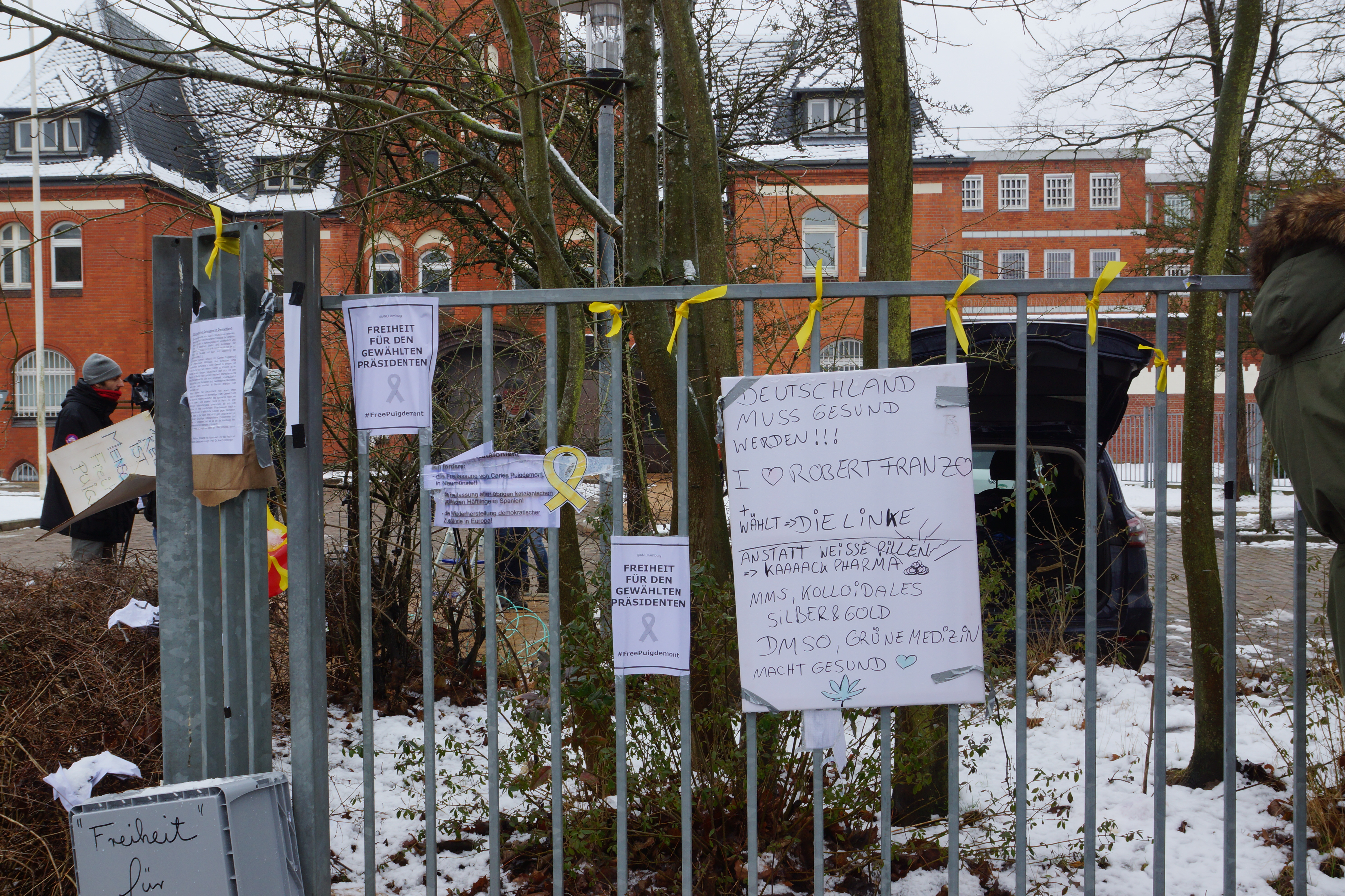 Neumünster, Germany: Detaill of prison with protest against Carles Puigdemont's arrest